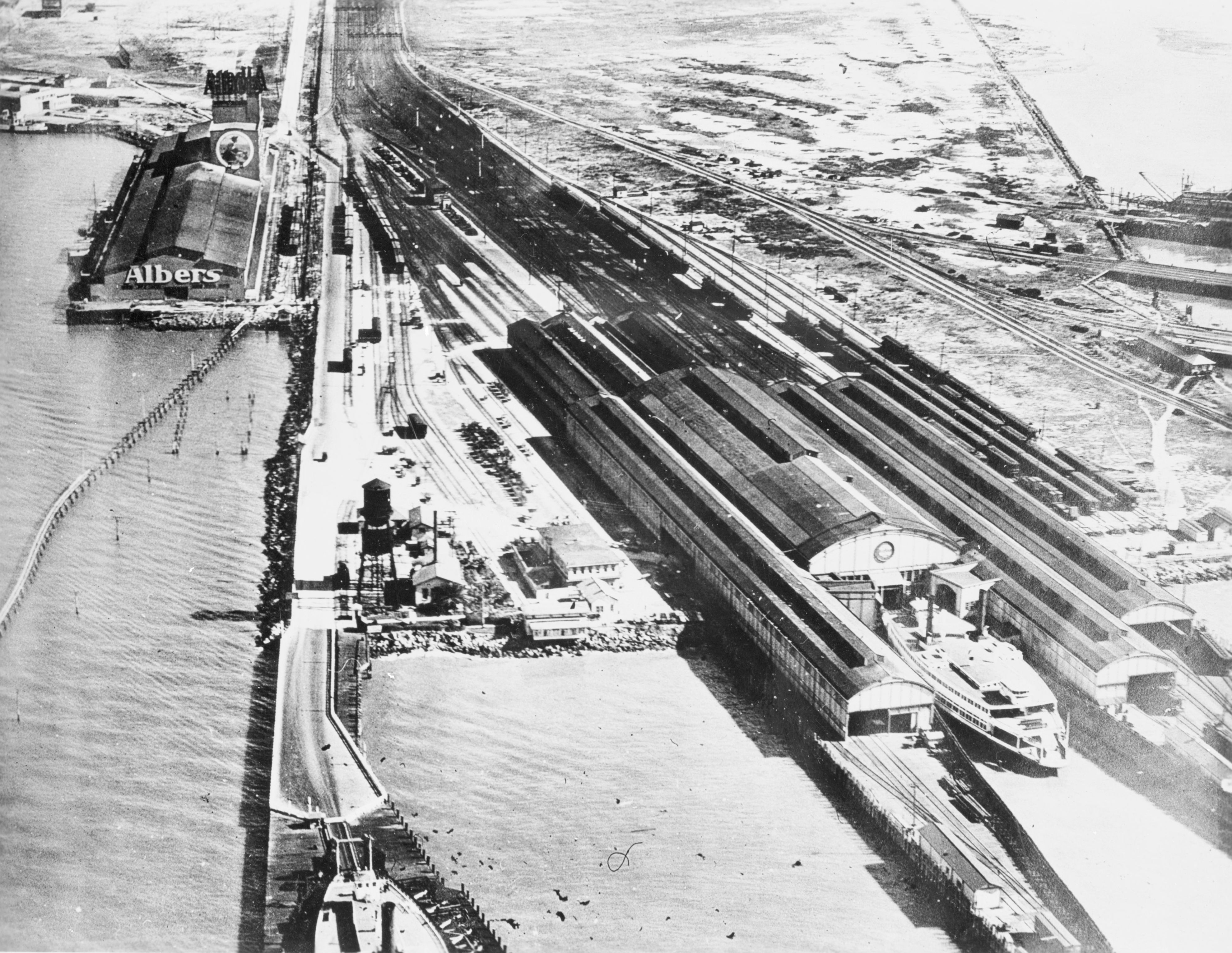 Aerial view of the Oakland Mole after 1919